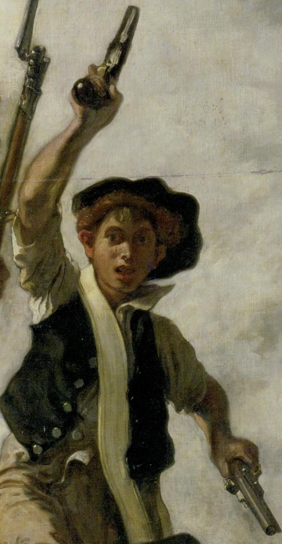 Romantic history painting. Commemorates the French Revolution of 1830 (July Revolution) on 28 July 1830.